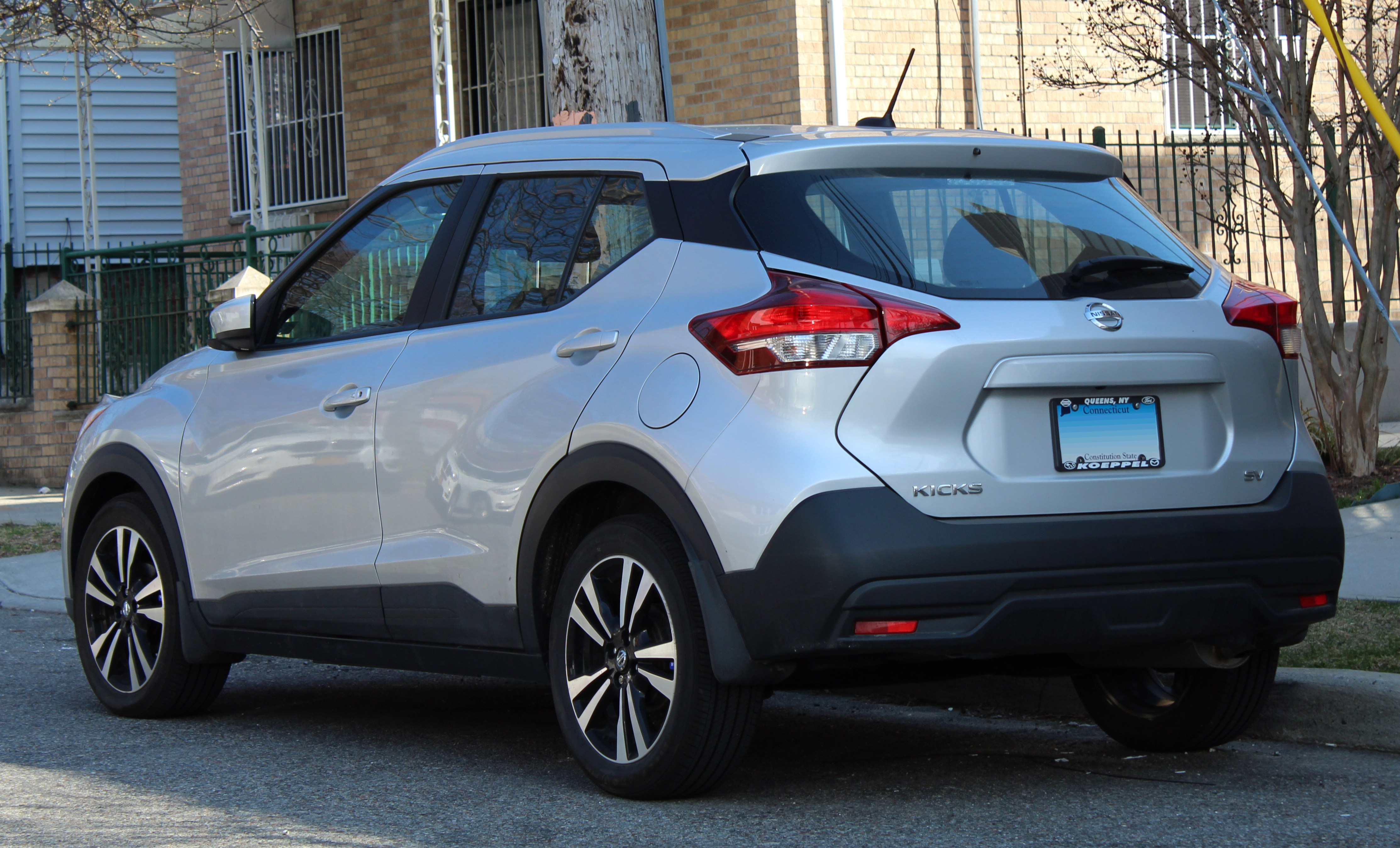 A 2018 Nissan Kicks photographed in Queens, New York, USA